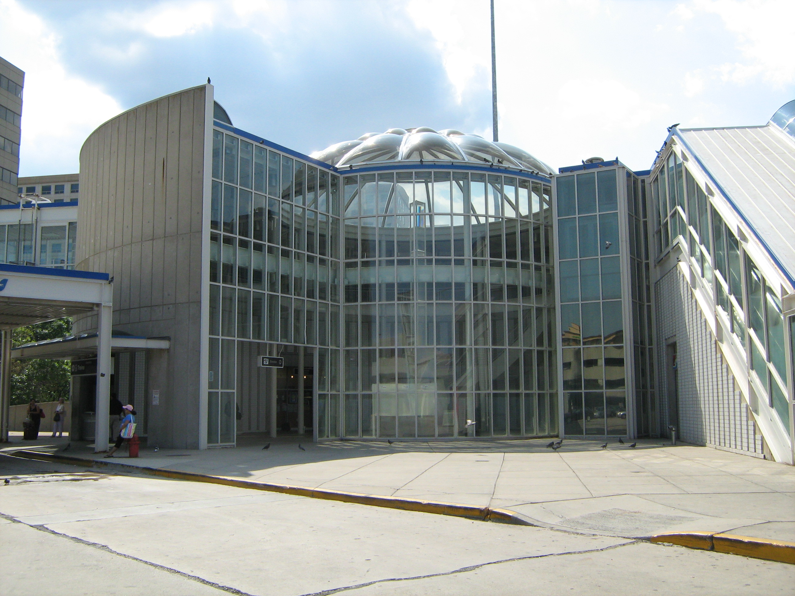 Cumberland CTA station Cumberland Avenue & the Kennedy Expressway (8400 W/5700 N) 5800 N. Cumberland Ave. Chicago, IL 60631 Blue Line (O'Hare Branch) Greyhound Bus Stop